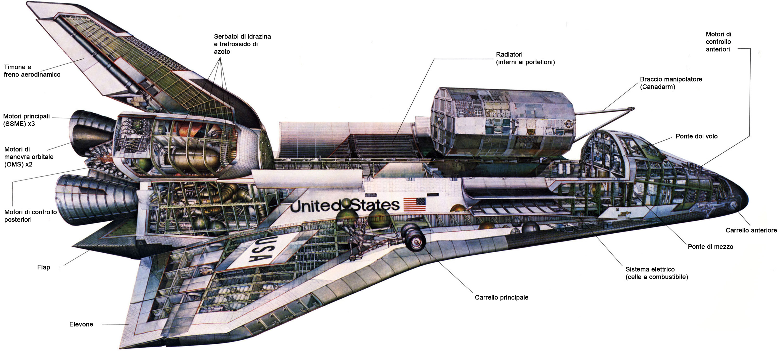 A diagram of a Space Shuttle Orbiter with Italian labels.